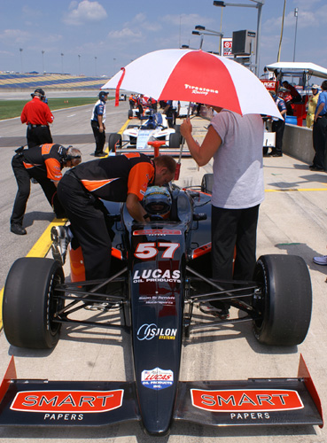 Leilani on pit road at Kentucky Speedway prior to qualifying 5th for her open wheel debut.